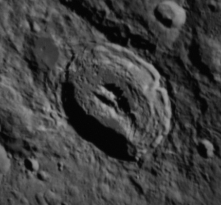 Oblique view of King, facing northeast, on the far side of the moon.